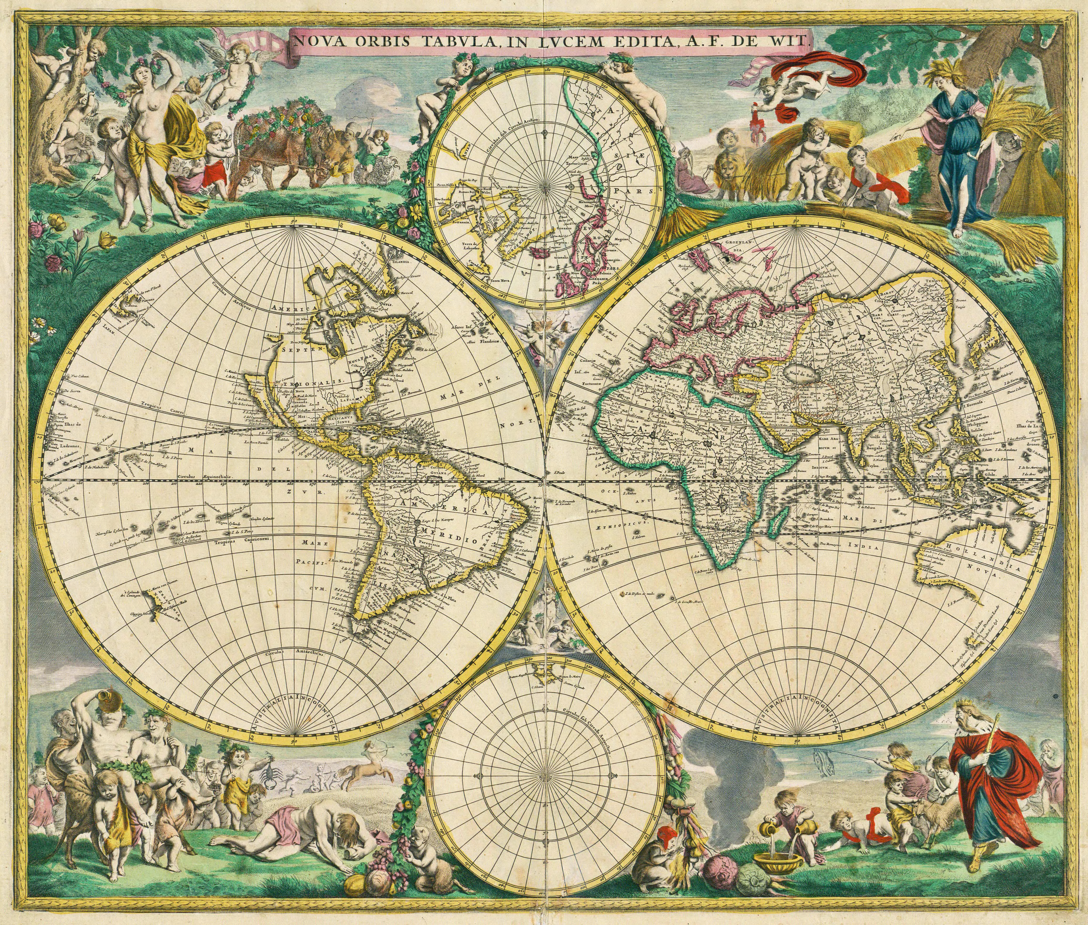 Worldmap ca. 1670; title: Nova Orbis Tabula, In Lucem Edita